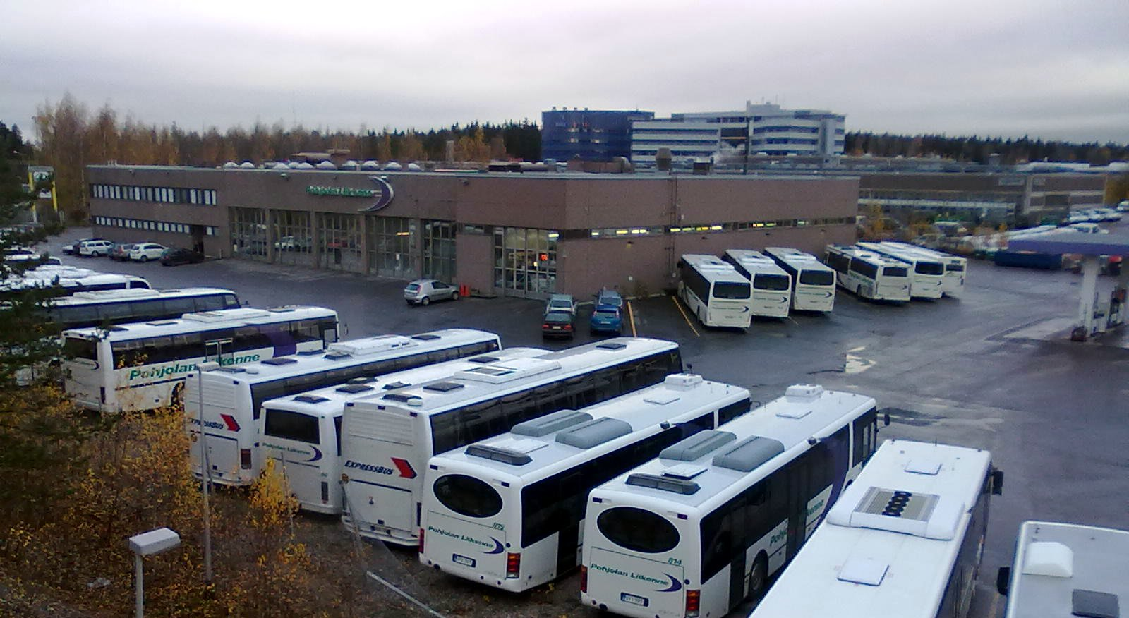 Picture from the Ilmala pit in 2010.